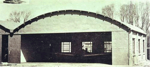 The Airframe Lab of Tsinghua University in 1936.